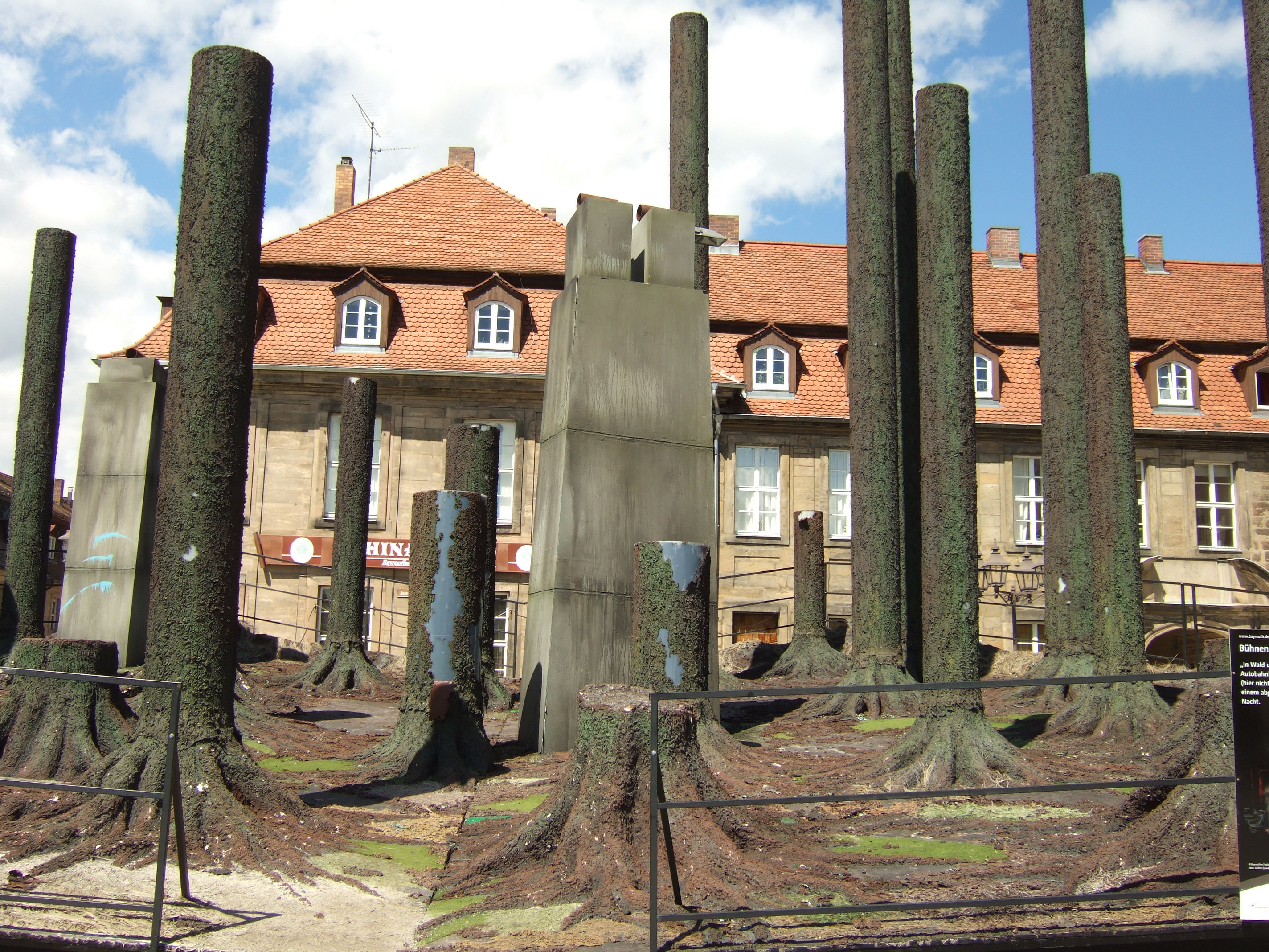 Set from the second act of Siegfried by Frank Philipp Schlößmann for Tankred Dorst's production, Bayreuther Festspiele 2006-2010, exhibited on the Geißmarkt Square during summer 2011